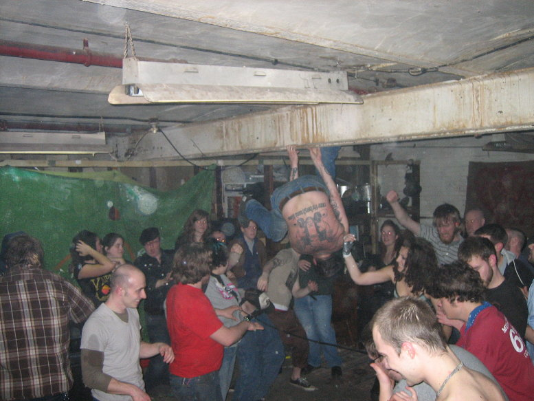 Landed performing on May 24, 2006 in Allentown, Pennsylvania. Photo credit: Dave Crandall.